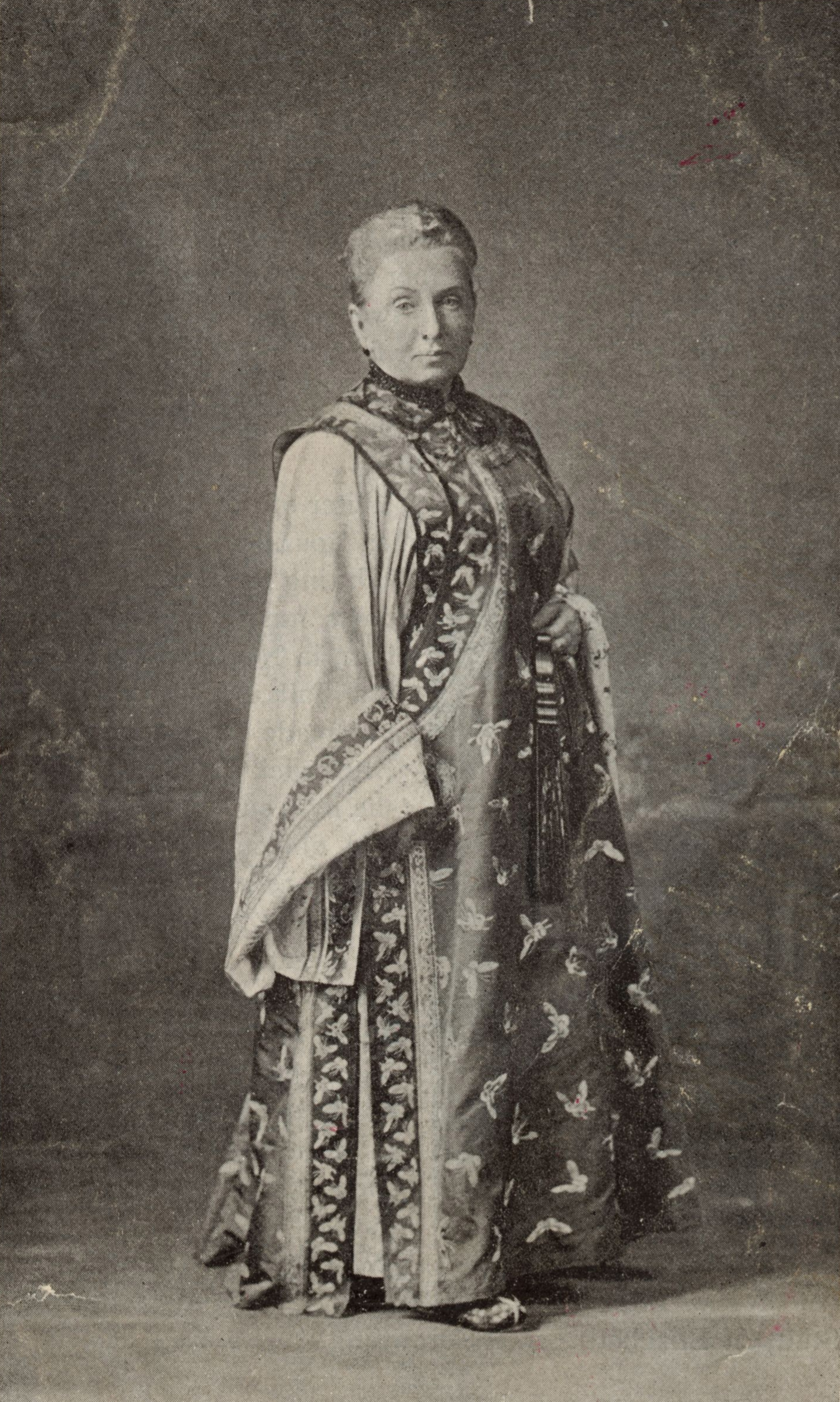 Travel writer Isabella Bird Bishop wearing a Manchurian gown